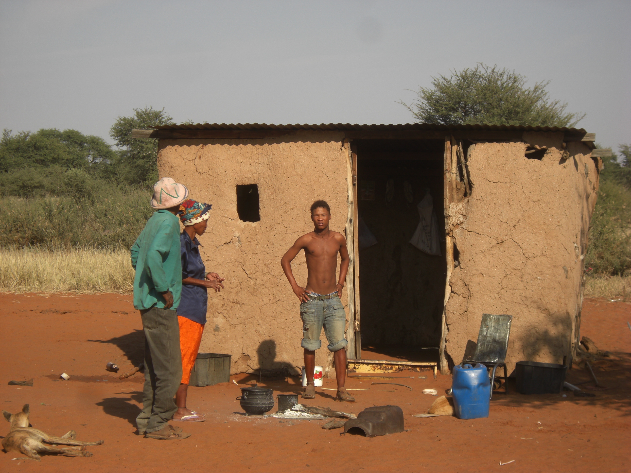 Bushmen hut, Namibia